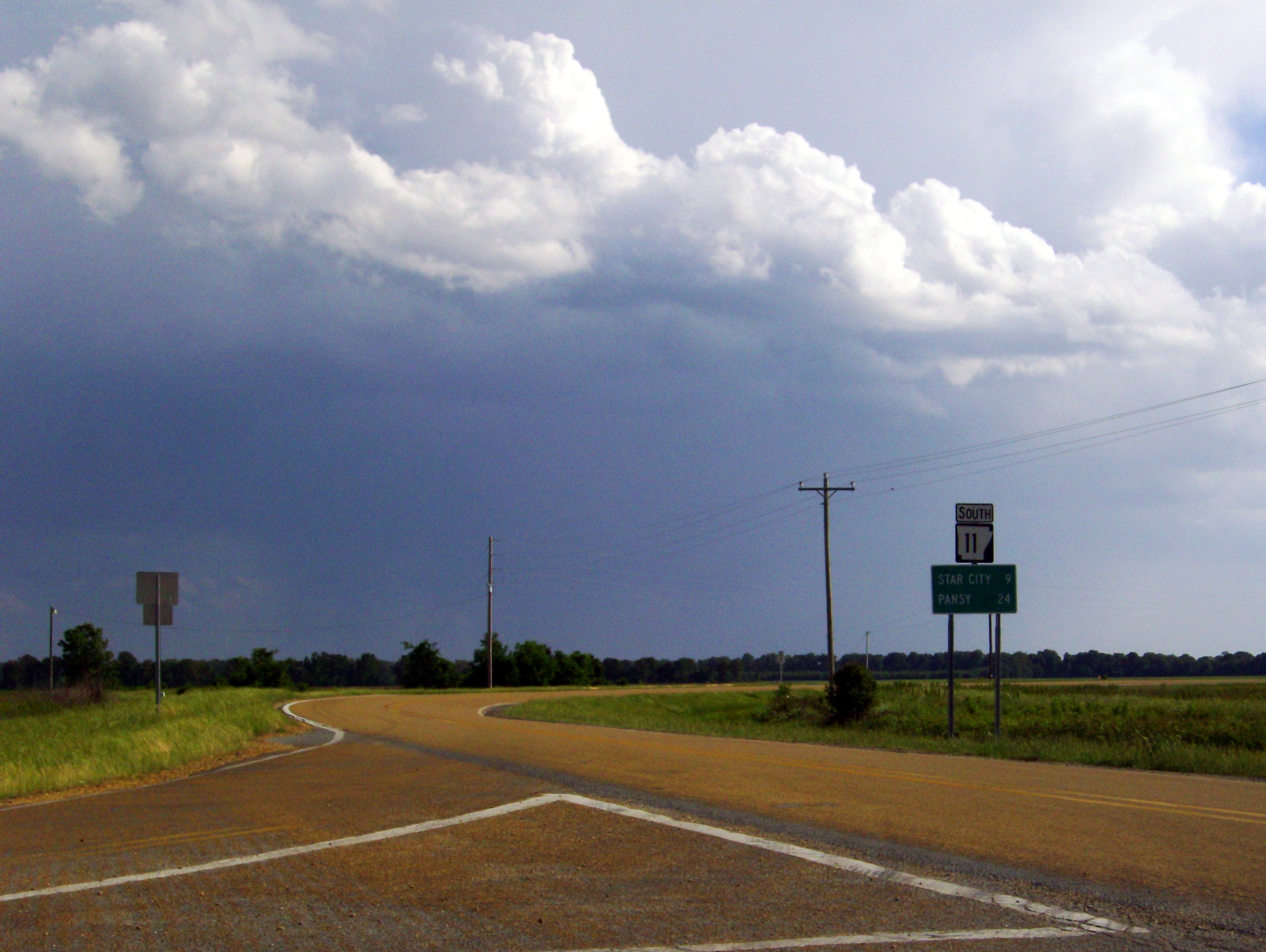 Highway 11 at the Highway 212 terminus in Desha County, AR